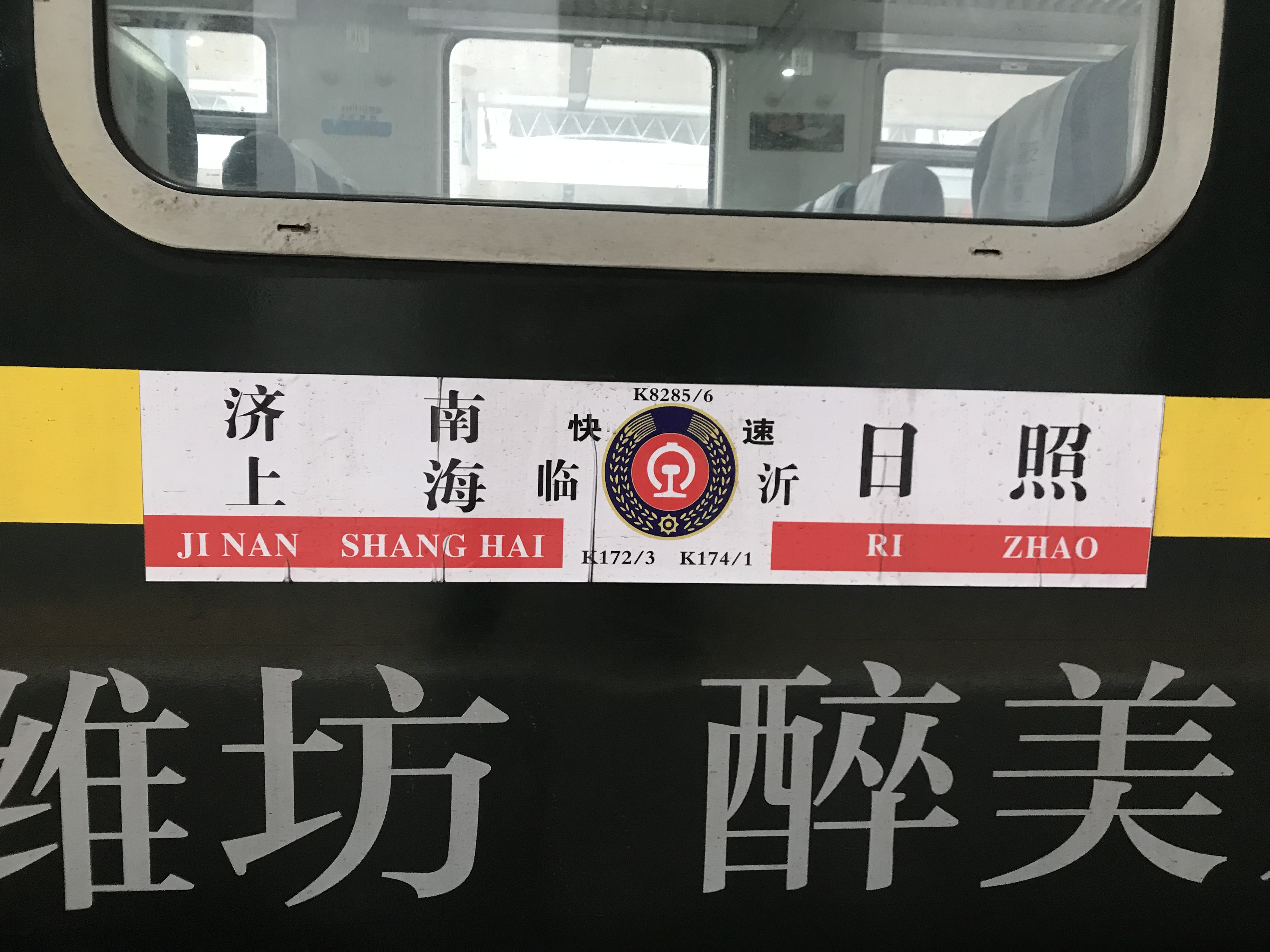 Taken at Changzhou Station